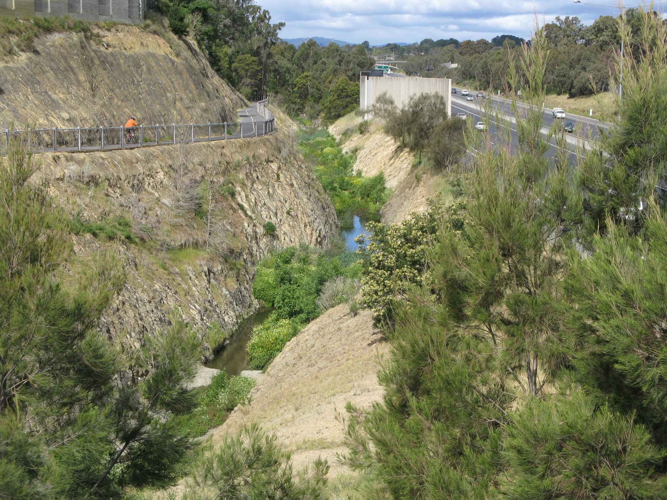 A photo of the Koonung Creek upstream of Blackburn Road taken from the Blackburn Road bridge over the Eastern Freeway, looking east towards Mount Dandenong. I took this photo myself in October 2008.